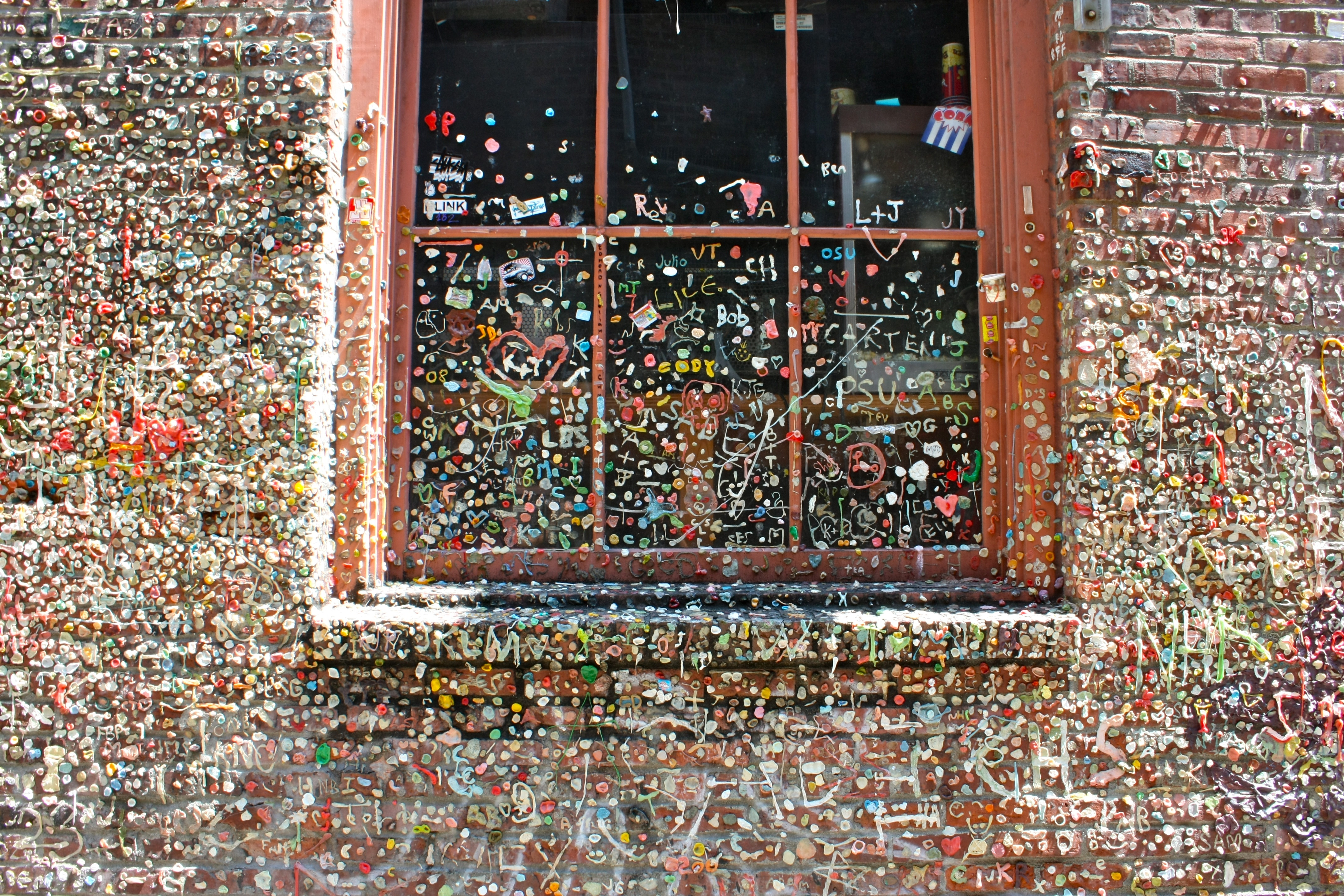 Gum Wall, Pike Place Market, Seattle. This is outside the Market Theatre.